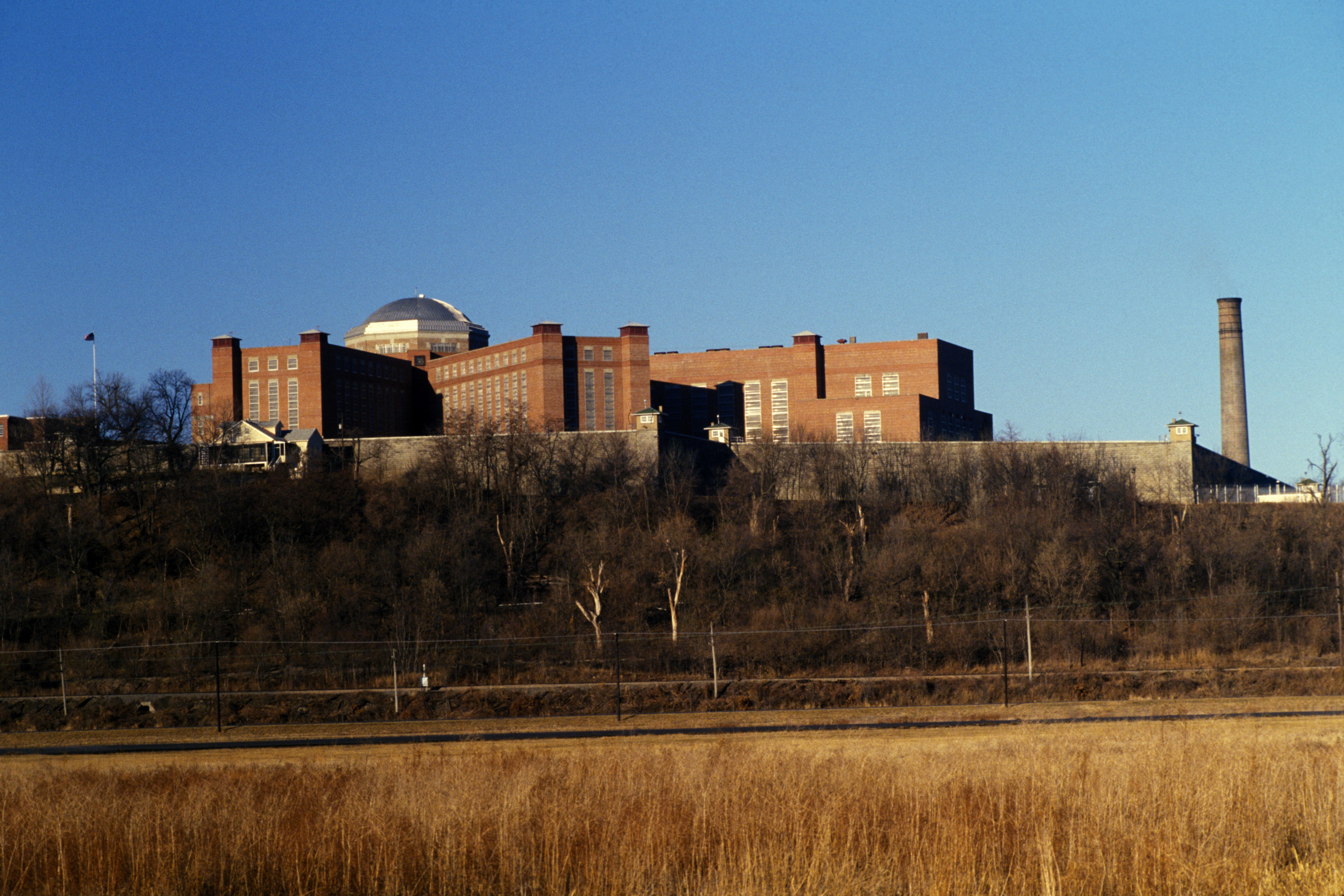 A view of the United States Disciplinary Barracks (Fort Leavenworth, Kansas).